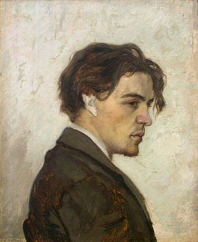 A portrait of Anton Chekhov by his brother Nikolay Chekhov